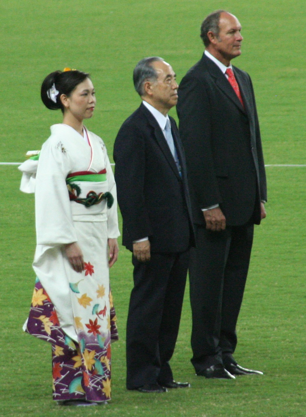 World Athletics Championships 2007 in Osaka - Alberto Juantorena (right), gold medal winner over 400 and 800 metres at the 1976 Olympics, while assisting at a victory ceremony at the 2007 world championships